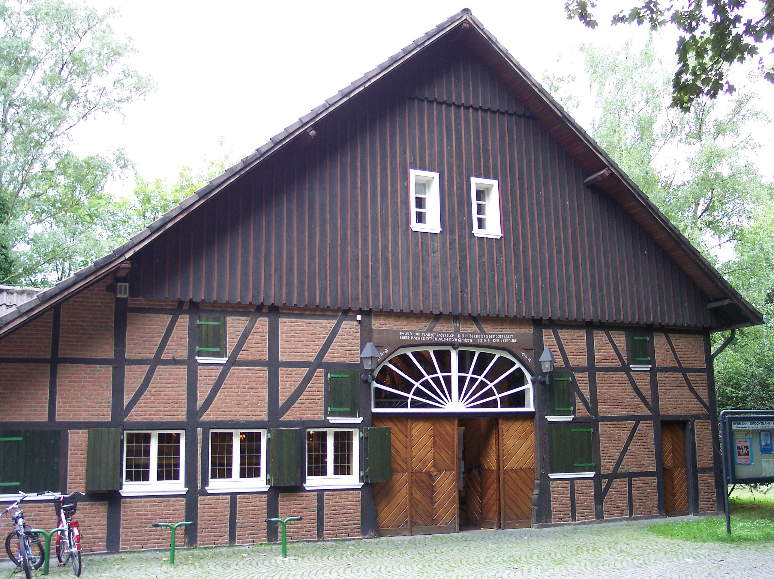 Datteln Museum